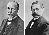 The founders of Orenstein & Koppel (O&K), Benno Orenstein (right) und Arthur Koppel (left)